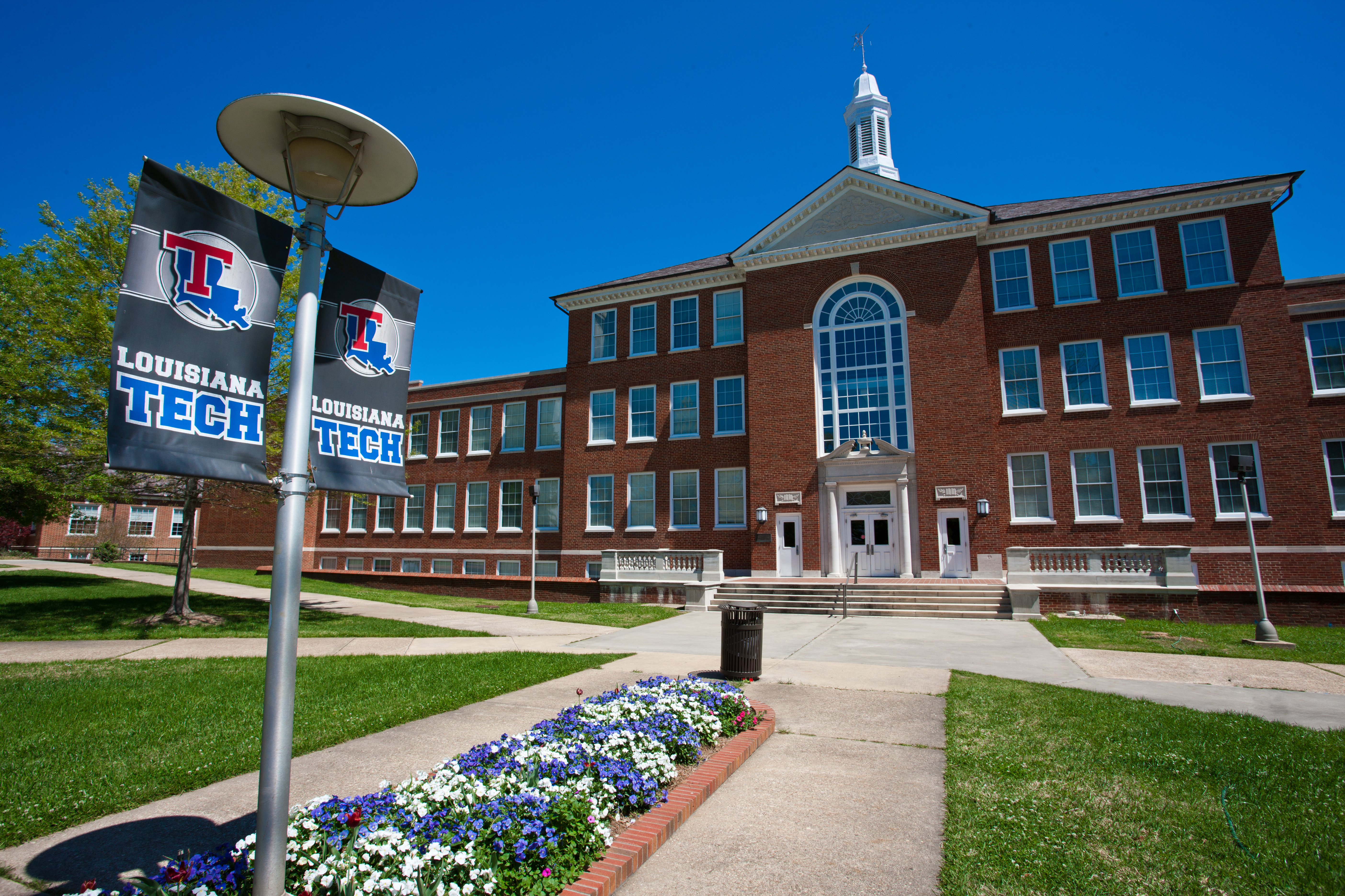 Louisiana Tech University's Keeny Hall. One of the main buildings that sits on the periphery of the Quad.